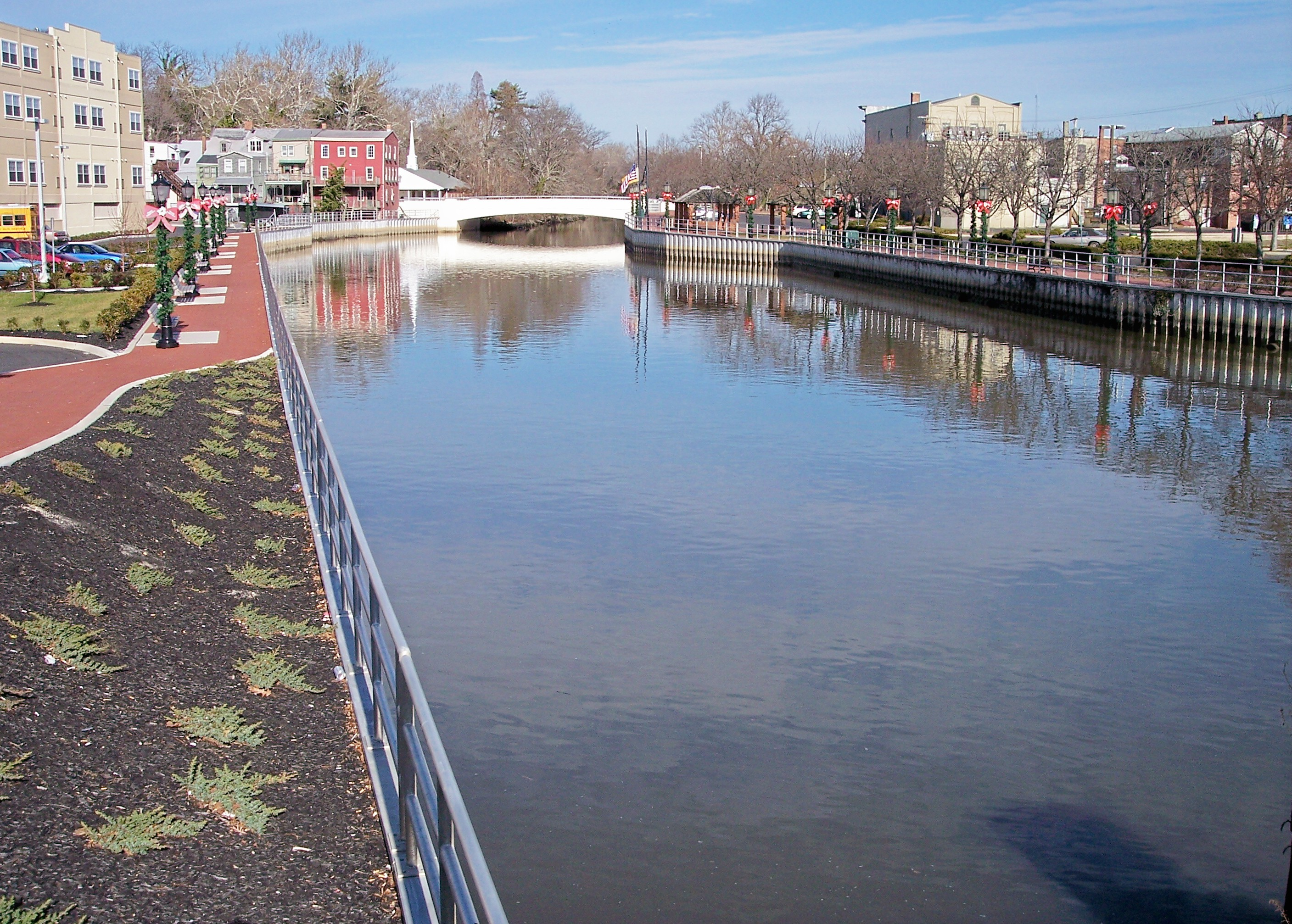 The Cohansey River, looking upstream from Broad Street (New Jersey Route 49) in Bridgeton, New Jersey